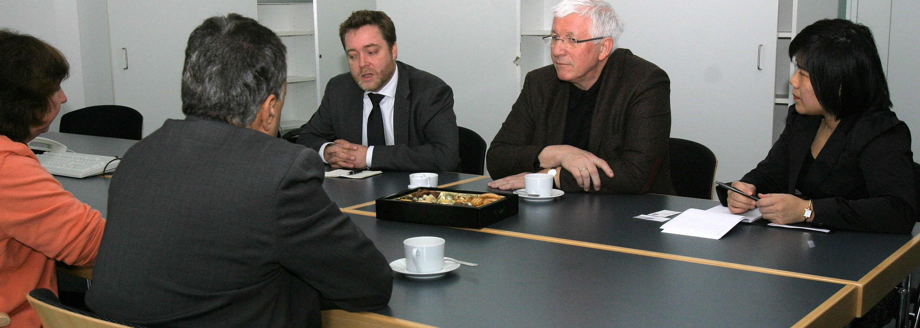 Meeting of Radio Zamaneh director and board member with Deutsche Welle Persian Service editor, Bonn, 2011 / Een vergadering tussen de directeuren van Radio Zamaneh en Deutsche Welle Perzisch, Bonn, 2011